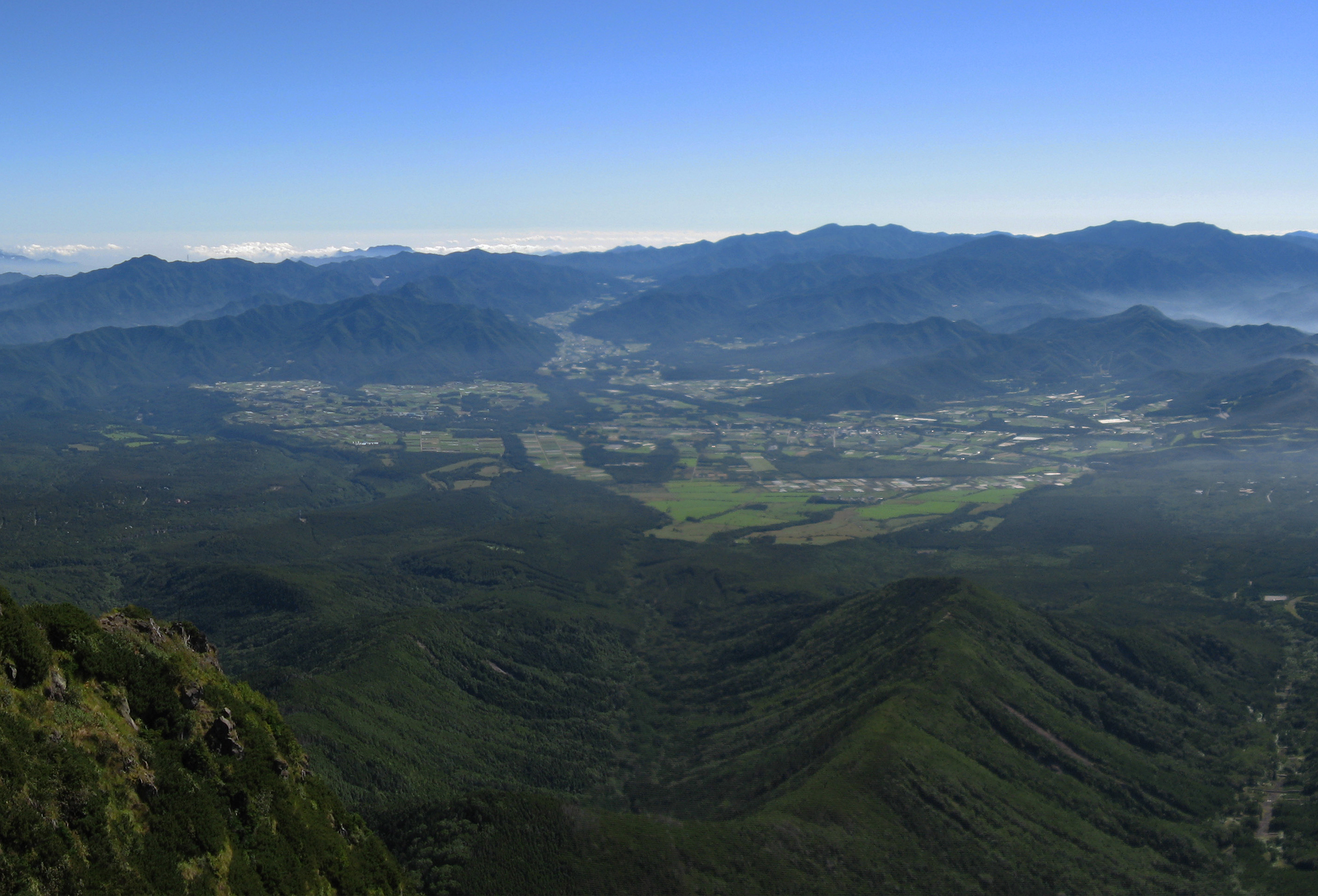 Nanmoku Village from the West.